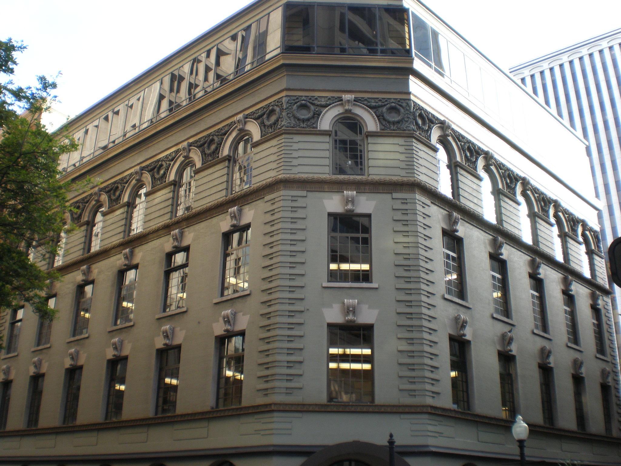 Judd Building at corner of Merchant and Fort Streets, Honolulu, designed by Oliver G. Traphagen in 1898